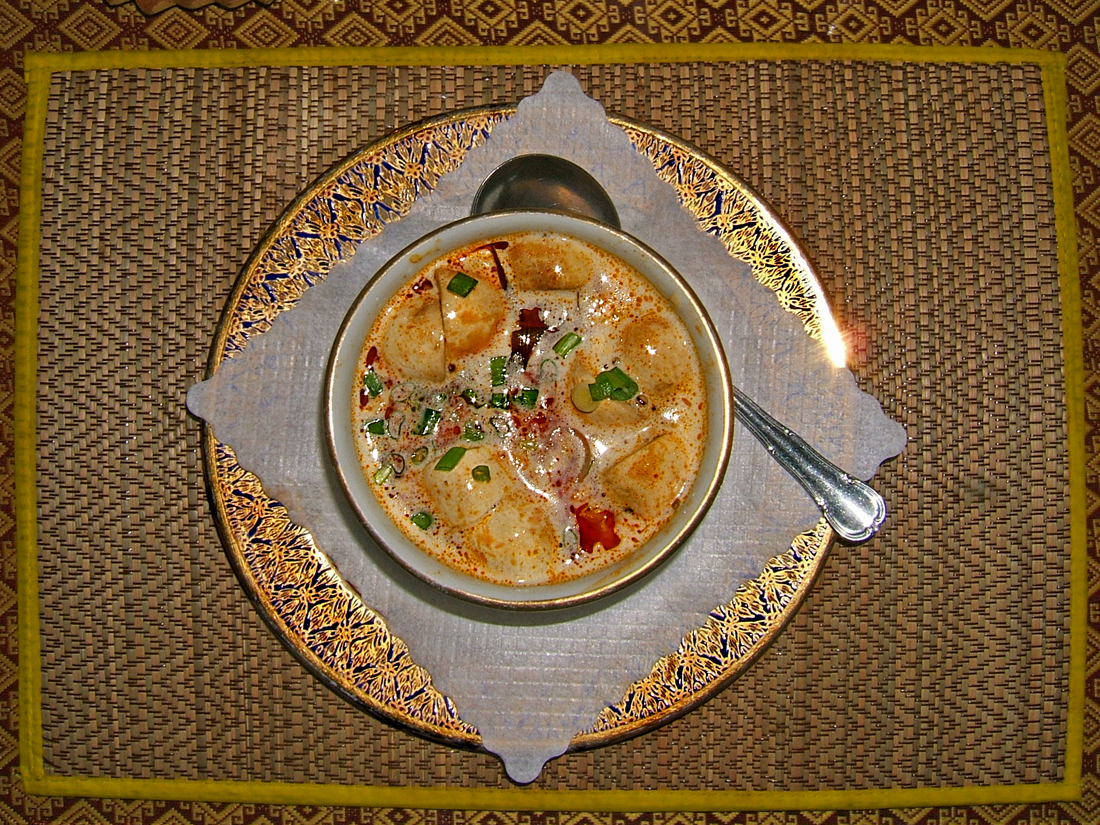 Thai chicken soup with galangal, coconut and mushrooms